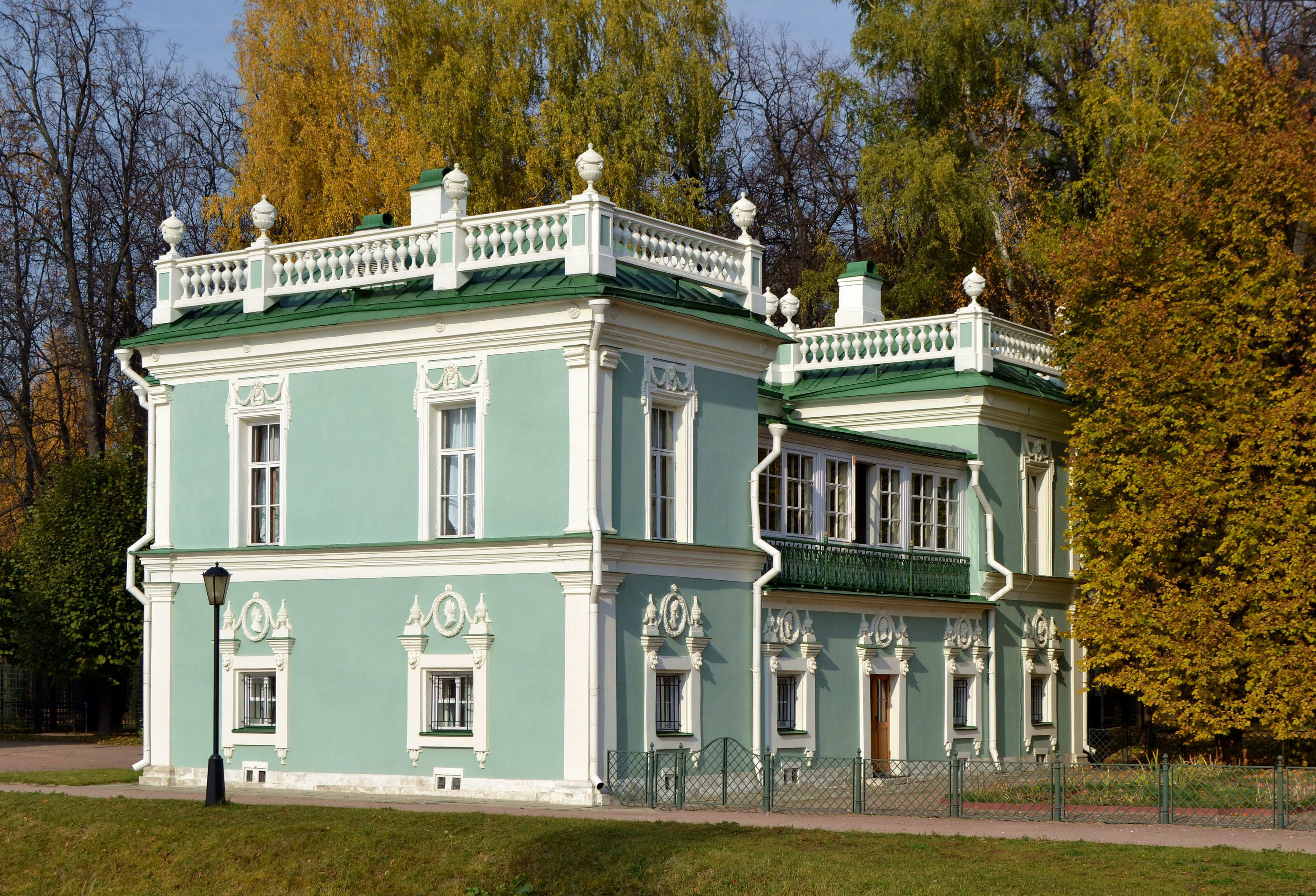 The Kuskovo Estate. The Italian House (the view from the rear yard). Architect Yuri Kologrivov (1692(?) — 1754). 1754—1755.